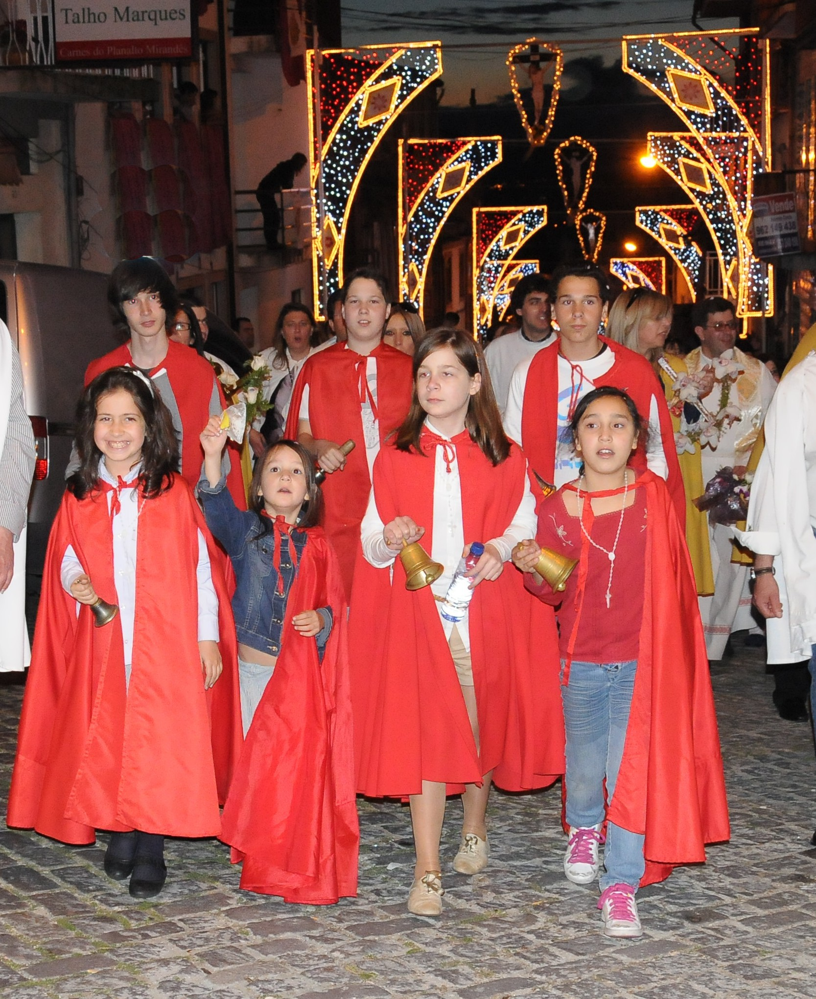 Easter Monday at Boavista Street 2012, in Braga, Portugal.